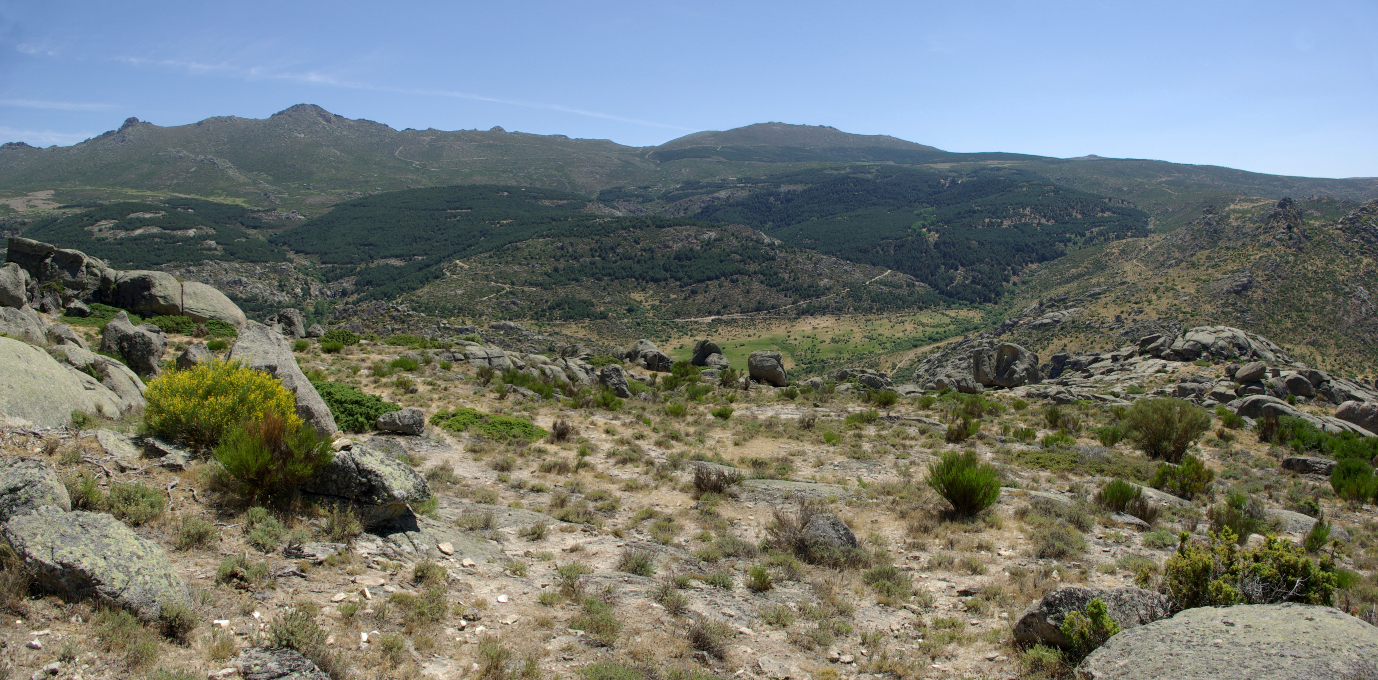 Landscape of Ulaca's southern walls, with Zapatero and Alto de la Hoya's peaks. Villaviciosa (Solosancho, Ávila, Spain)